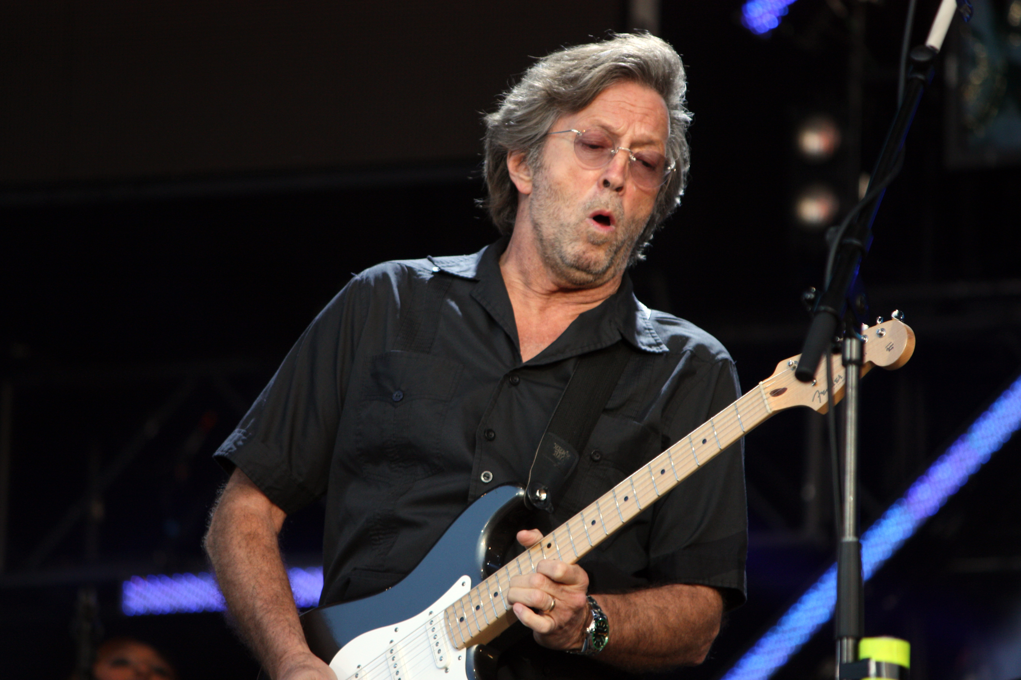 The legendary Eric Clapton playing live at the Hard Rock Calling concert on June 28, 2008 in Hyde Park, London